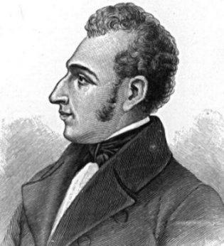 Engraving of Antonio José de Sucre by an American painter in 1902.